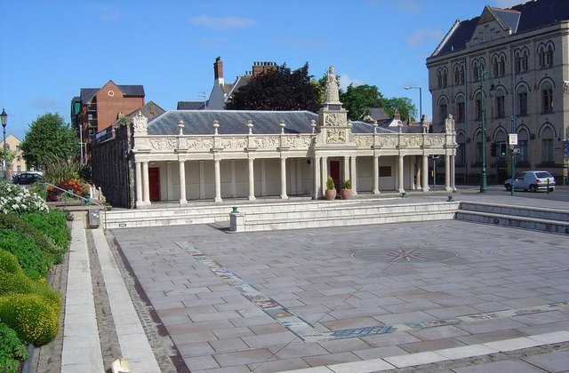 Queen Anne's Walk, Barnstaple A Grade 1 listed building completed in 1713 as a merchant's exchange. Under the statue of Queen Anne in the centre is the Tome Stone, where bargains and deals were struck ("on the nail") in front of witnesses. The area in front of the walk was the site of "The Great Quay" in Elizabethan times and Barnstaple provided 5 ships against the Spanish Armada. Today the building houses the Barnstaple Heritage Centre and the area in front is inset with a mosaic depicting Barnstaple's history.